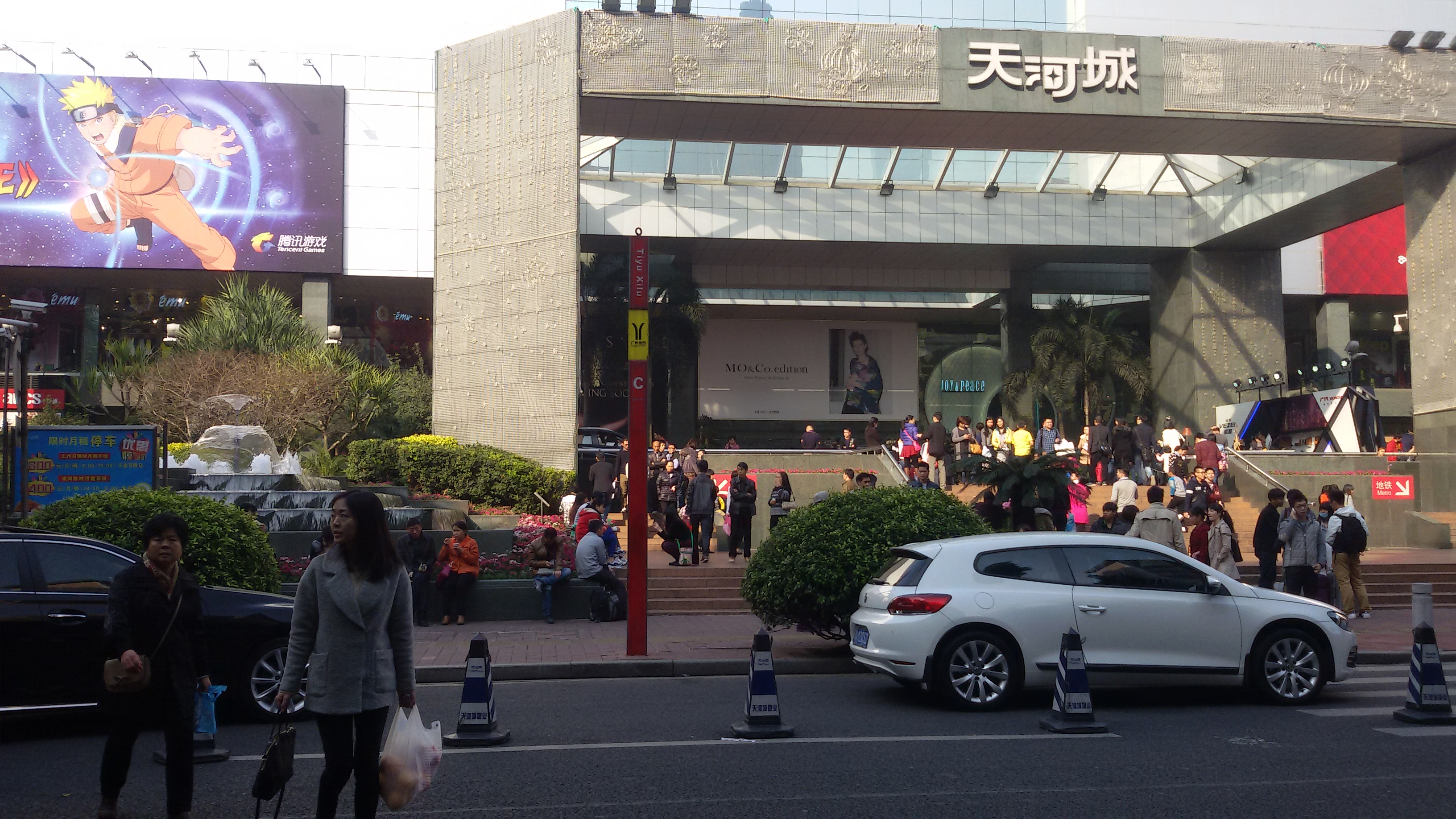 Exit C for Tiyu Xilu Station in Guangzhou Metro. 粵語: 廣州地鐵，體育西路站嘅C出入口。